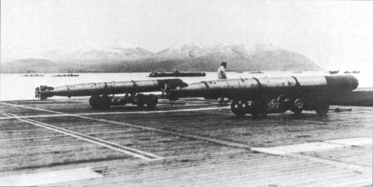 Type 91 Kai 2 torpedoes on Imperial Japanese Navy aircraft carrier Akagi flight deck. The carrier is at Hitokappu Bay in the Kuriles just prior to departing for the attack on Pearl Harbor. The carrier in the background is Hiryū.